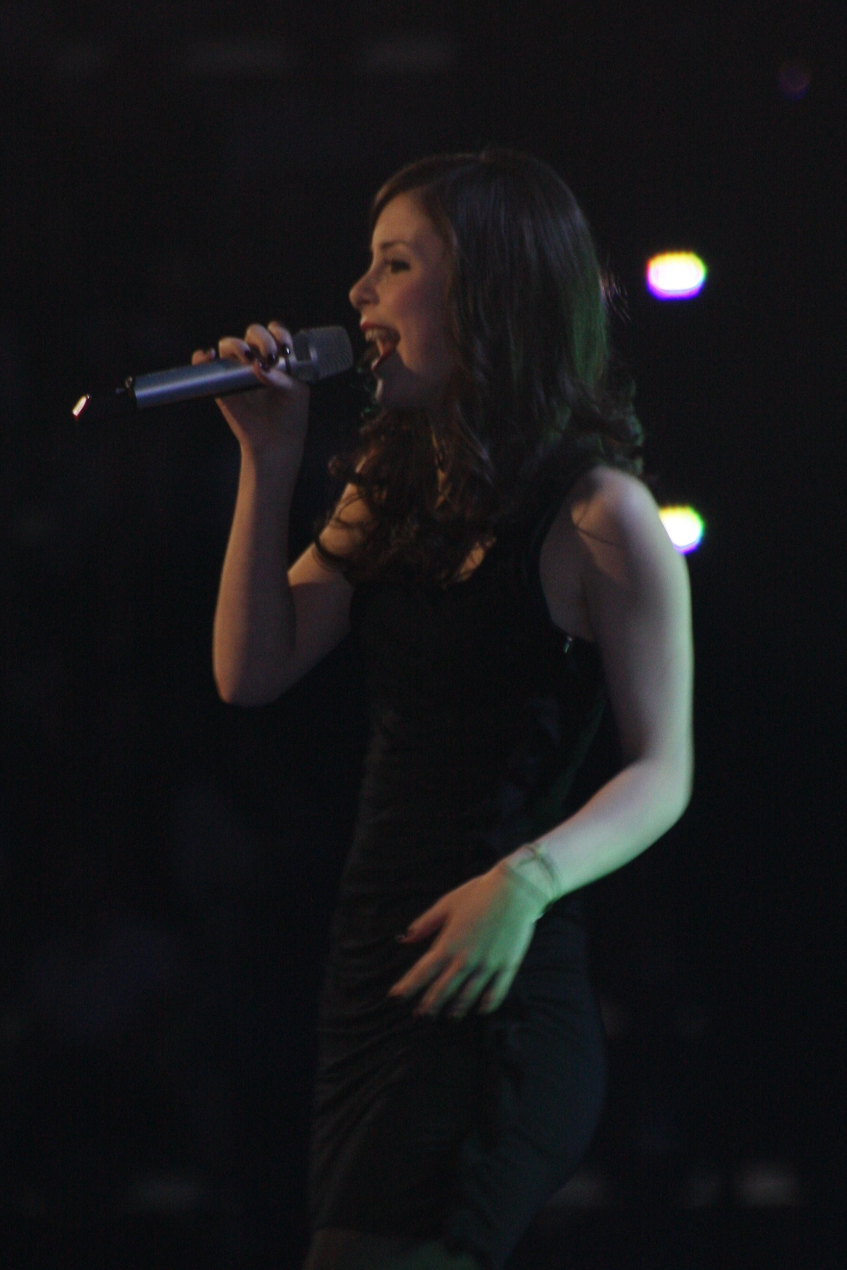 Lena Meyer-Landrut, artist of Germany in Eurovision Song Contest 2010, rehearsal, Telenor Arena. Norway.